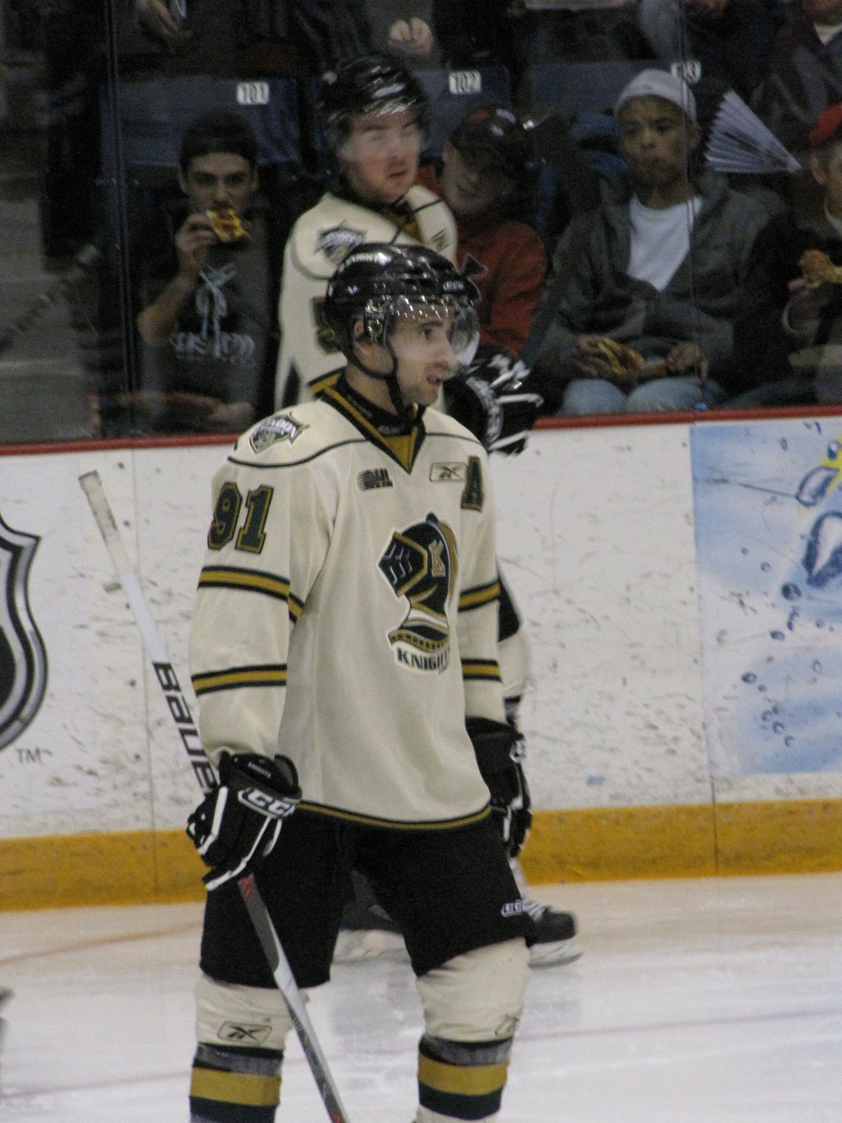 IMG_1172 London Knights vs. Guelph Storm Ontario Hockey League (OHL), March 25, 2010. Playoff action as the Storm host the London Knights. Not a good game from the Storm as they failed to concentrate during the game, and that sloppiness got them beat 8-2. Photo taken on March 25, 2010 by Tabercil using a Canon PowerShot SX10 IS. This photo also appears in Tabercil's Flickr set "2010-03-25 London Knights vs. Guelph Storm" (Set of 483).